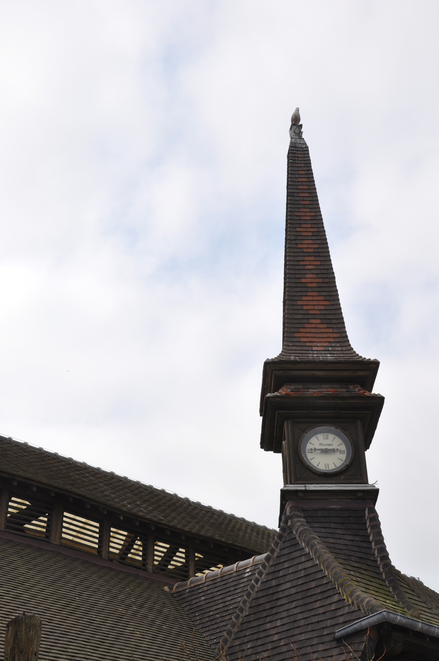 Étretat (Normandy, France) Clocher des halles couvertes à Étretat (Normandie)